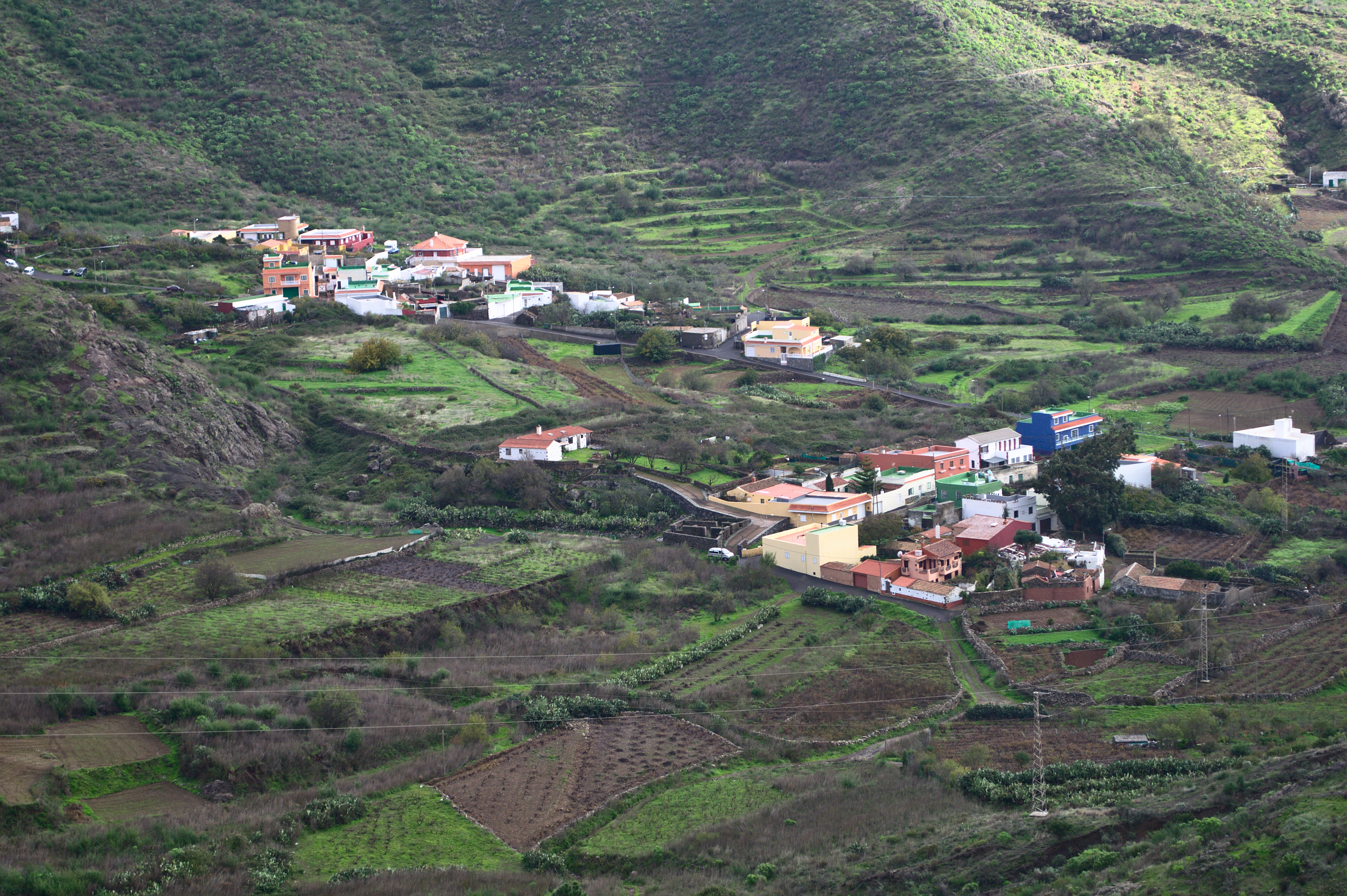 Tenerife - Valle de Arriba